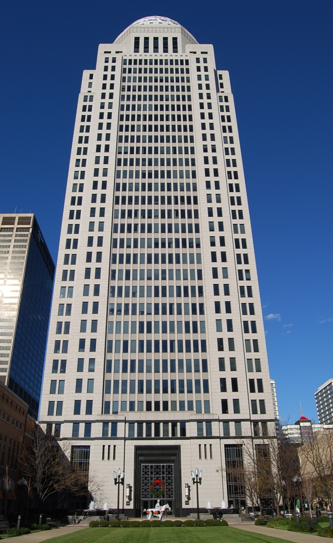 Aegon Center, Downtown Louisville, KY